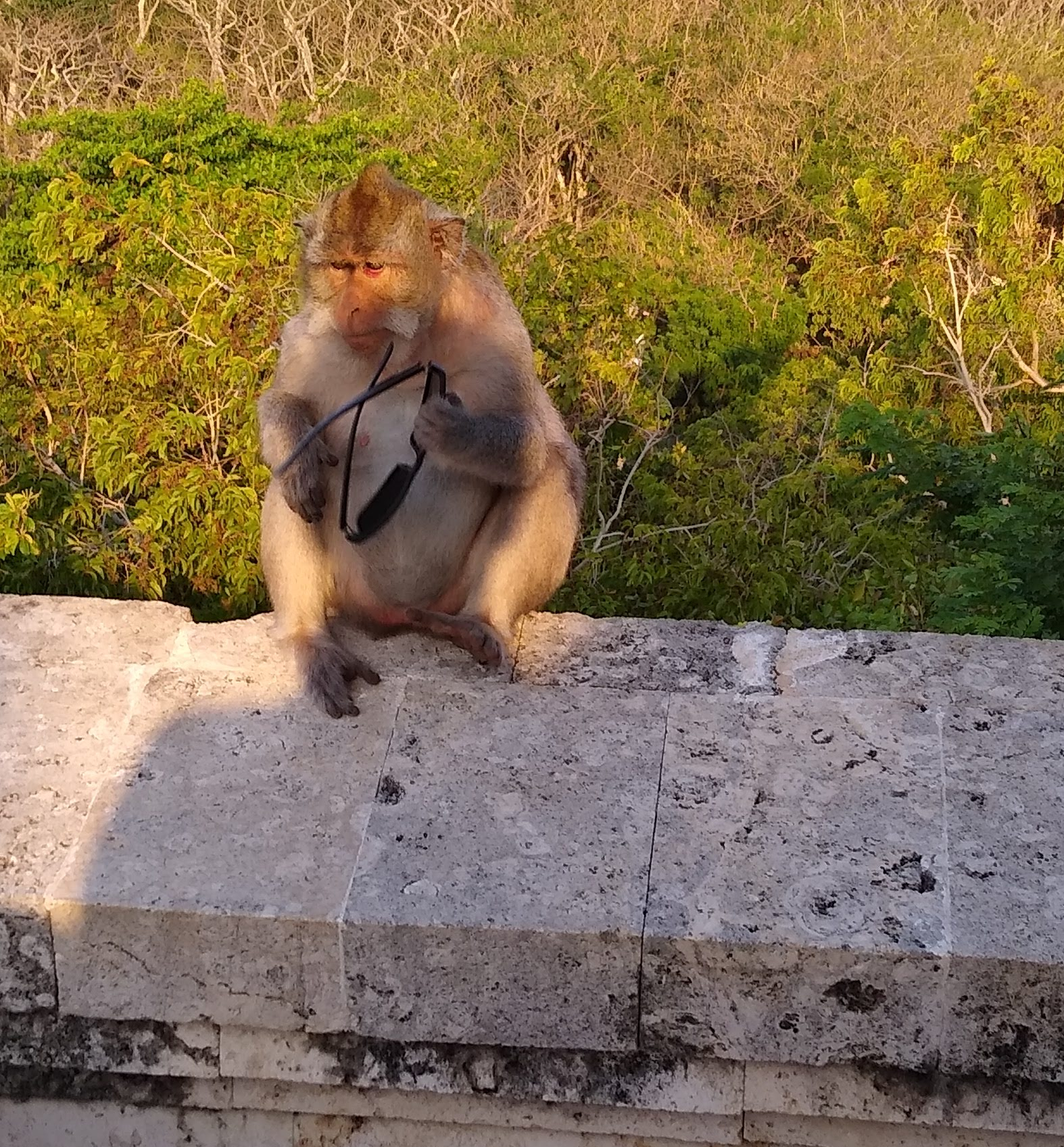 A monkey with a pair of stolen sunglasses at Uluwatu Temple in Bali.